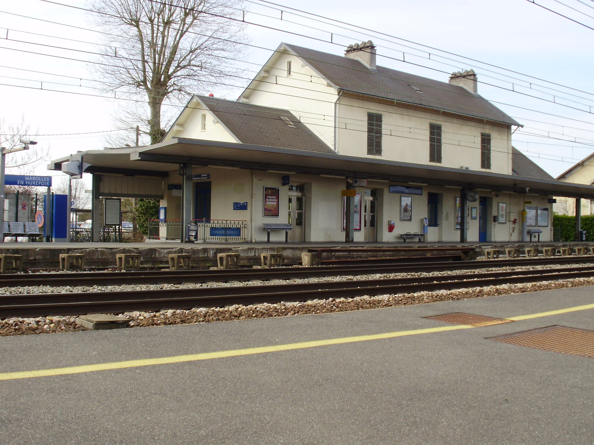 Marolles-en-Hurepoix station view from the opposite platform, Essonne, France